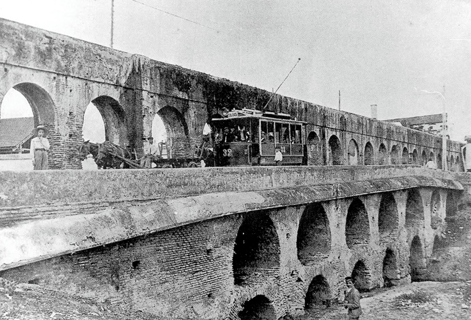 Section crossing the Tagarete stream, part of the Roman aqueduct Caños de Carmona, inside the city of Seville.